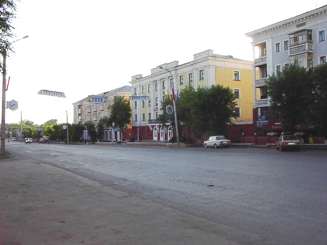 Buchar Zhirau street. Karaganda, Kazakhstan